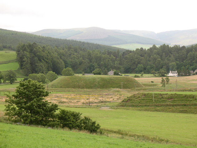 Doune of Invernochty A splendid example of a motte and bailey seen from the Glen Nochty road. The motte was fashioned from a handily placed glacial mound in Pictish times.